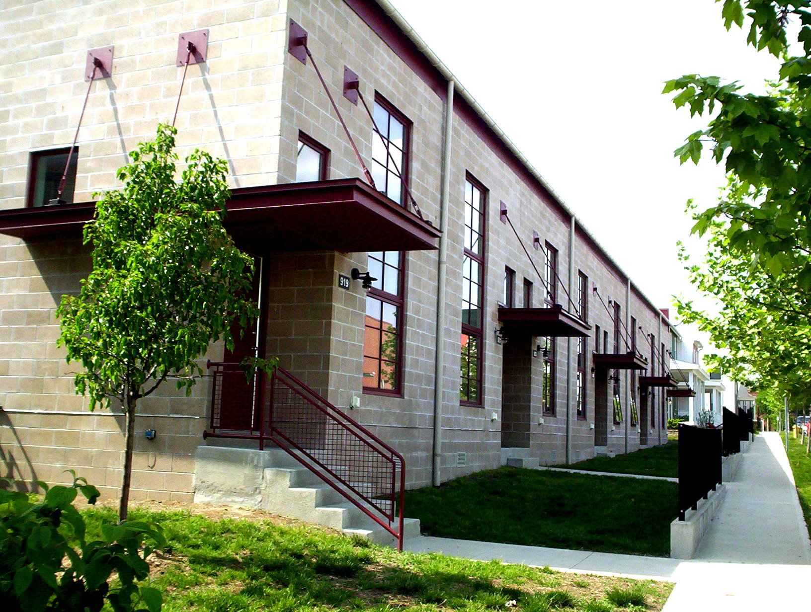 Mixed-income development.